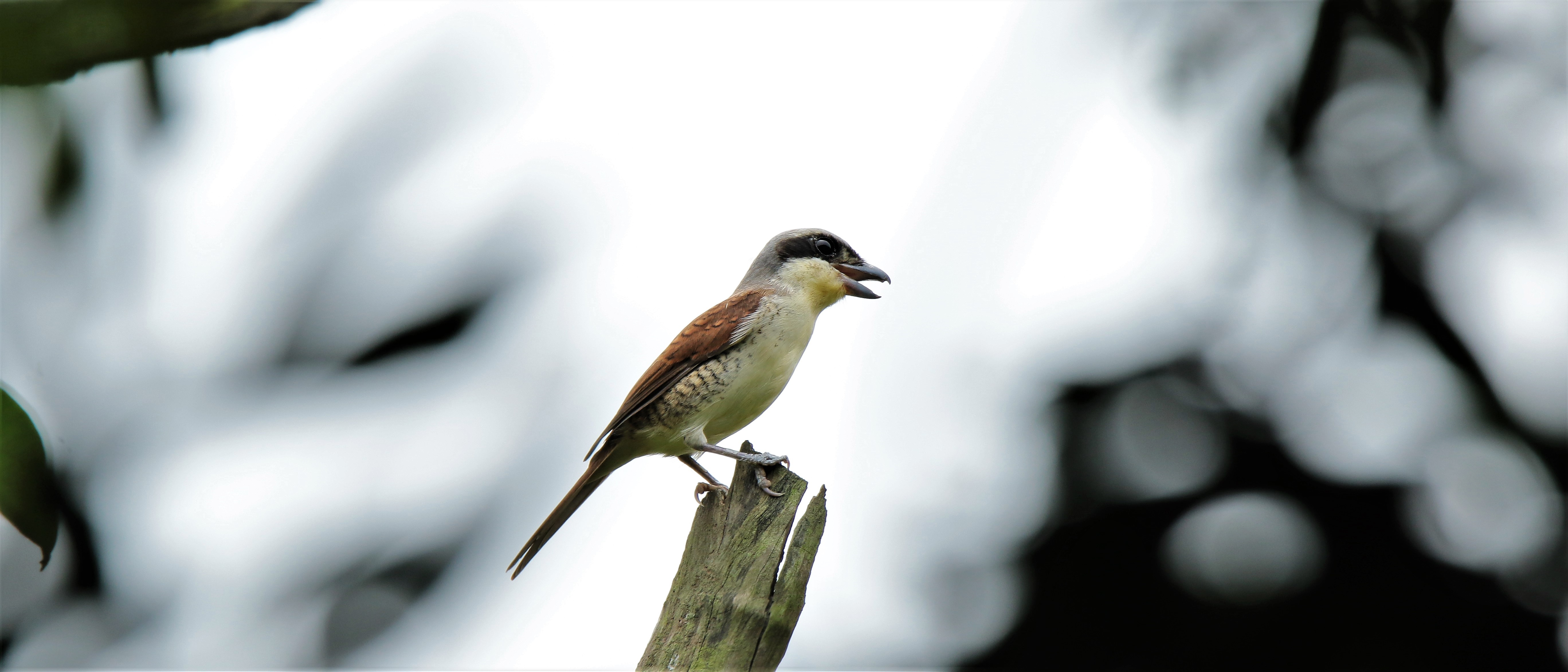 The tiger shrike or thick-billed shrike (Lanius tigrinus) in Vietnam